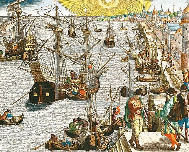 Departure from Lisbon for Brazil, the East Indies and America, engraving from c.1592 by Theodor de Bry (Flemish, 1528-1598), illustration in America Tertia Pars. Location: Service Historique de la Marine, Vincennes.